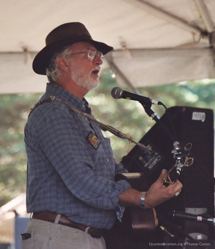 Bill Staines performing at the Pawtucket Arts Festival - Stone Soup Folk Fest.